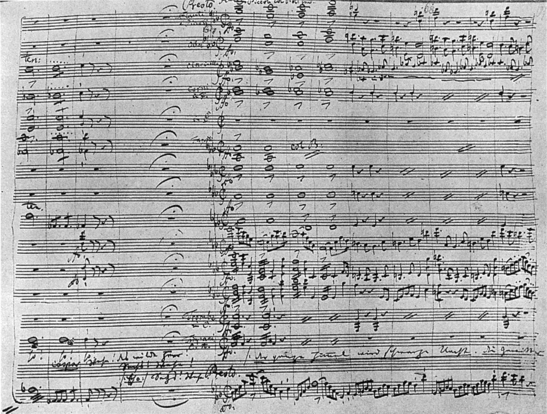 Autograph score of part of Act 2 (Wolf's Glen) of the opera Der Freischütz by Carl Maria von Weber